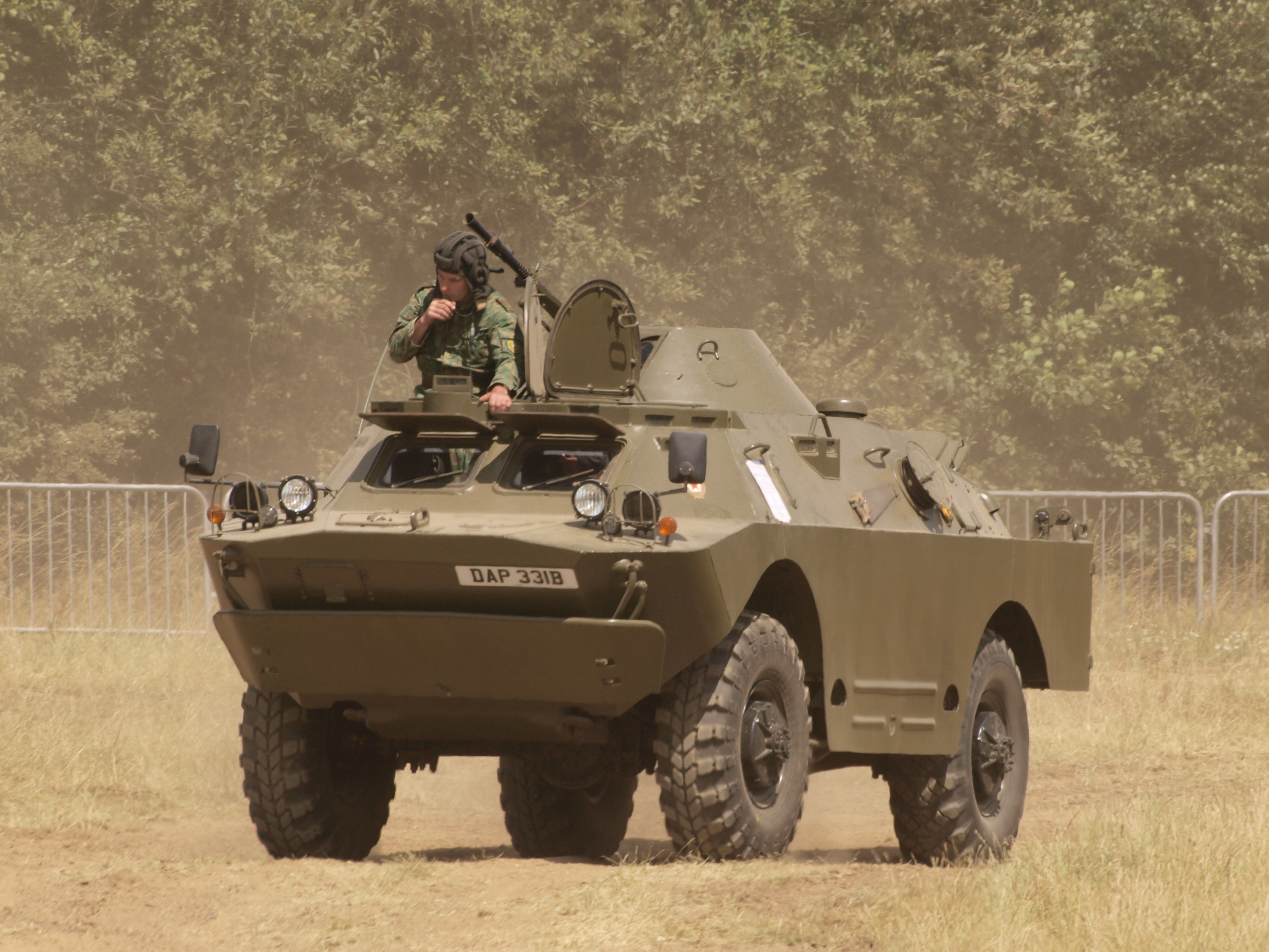 BRDM-2 (1964) owned by James Stewart in the arena.